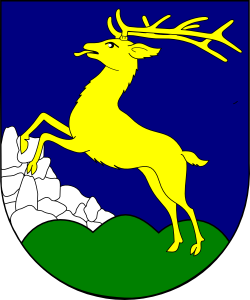 Coat of arms (shield only) of József Kopácsy, bishop of Veszprém, Hungary (1825 - 1838), archbishop of Esztergom (1838 - 1847), based on sculpture in Esztergom: (with water)and Siebmacher: Ungarn, p. 324, Tab. 245 (with triple mountain). (no water, no triple mountain).